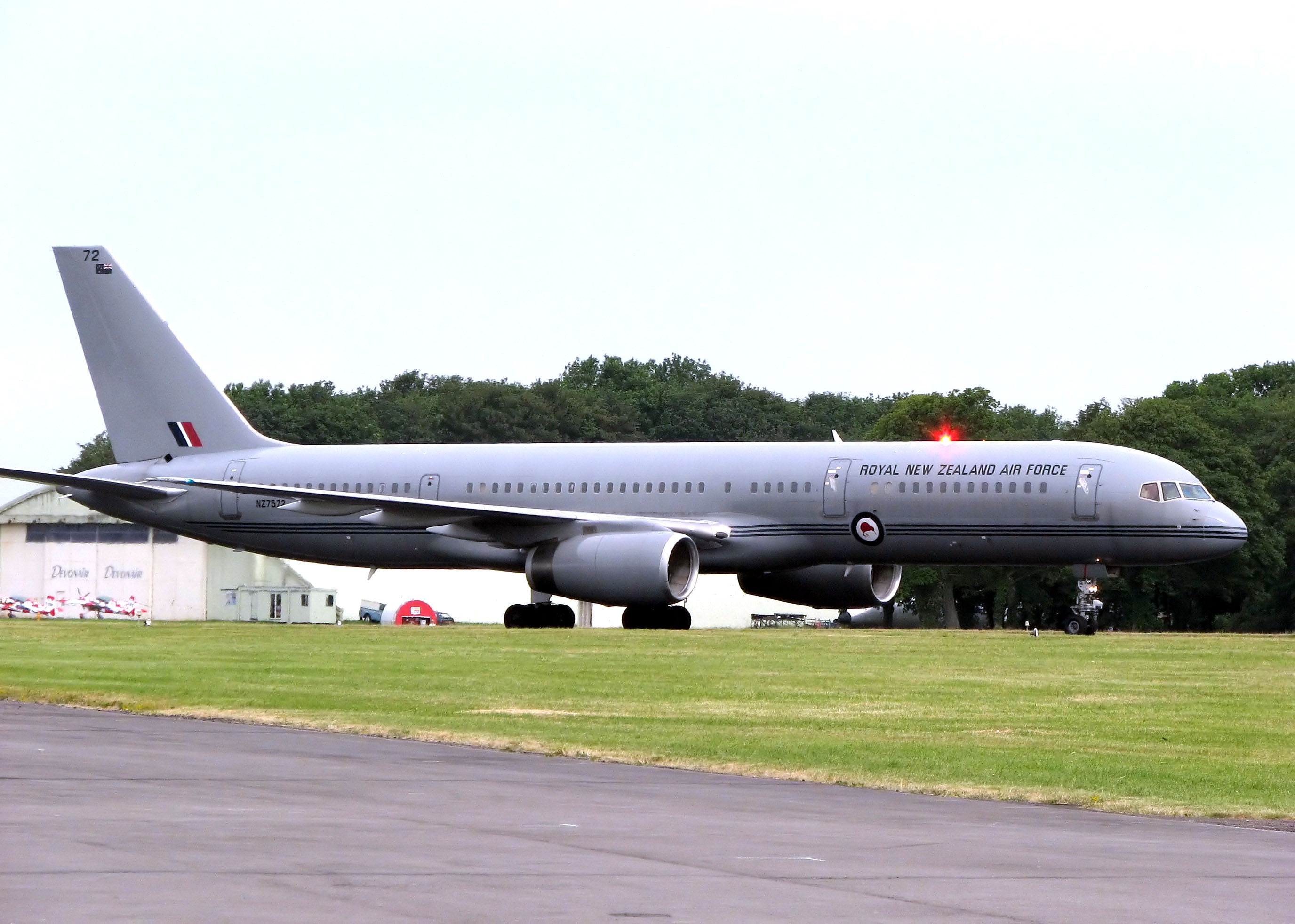 Royal New Zealand Air Force Boeing 757-200 at Kemble Airfield, Gloucestershire, England, for an air display. Other versions: Image:Nz.b767.arp.jpg Photographed by Adrian Pingstone on June 17th 2006 and released to the public domain.